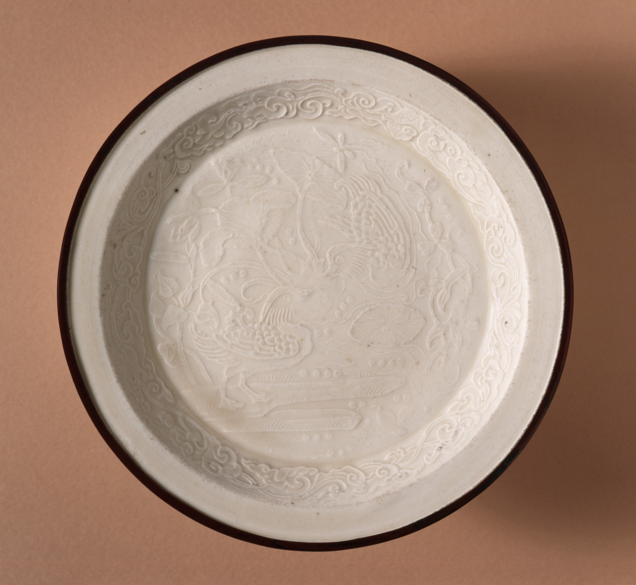 China, Hebei Province, Quyang County, Jin dynasty, 1127-1234 Furnishings; Serviceware Ding ware, molded stoneware with impressed decoration, transparent glaze, and banded metal rim Gift of Mr. and Mrs. Nathan V. Hammer (54.37.4) Chinese Art